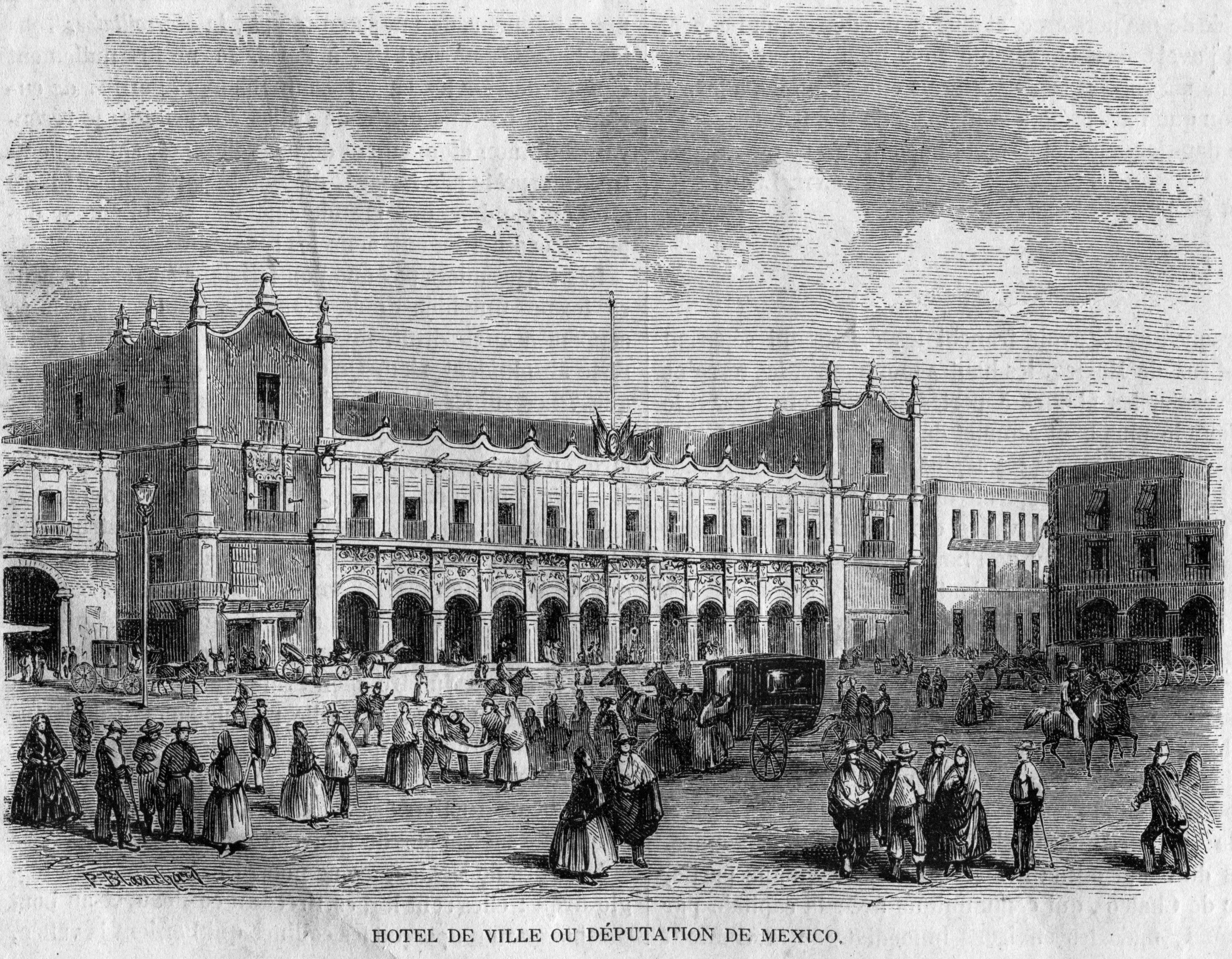 L'Illustration 1862 gravure Hotel de Ville ou Députation de Mexico